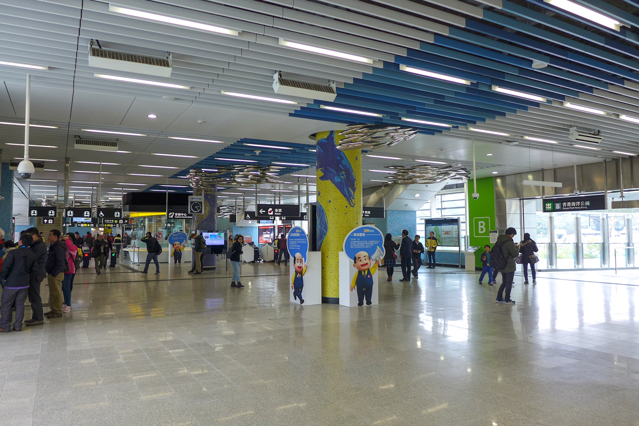 Ocean Park Station Concourse